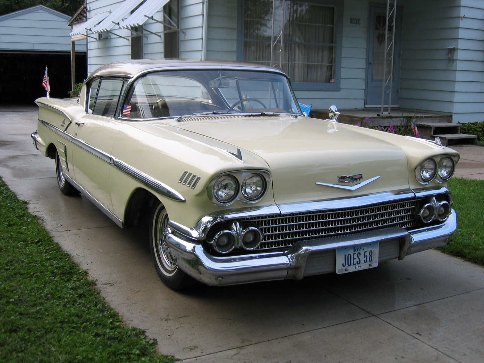 1958 Chevrolet Bel Air Impala, Model 1747 2-door Hardtop, 6 cylinder, color Honey Beige with Anniversary Gold.